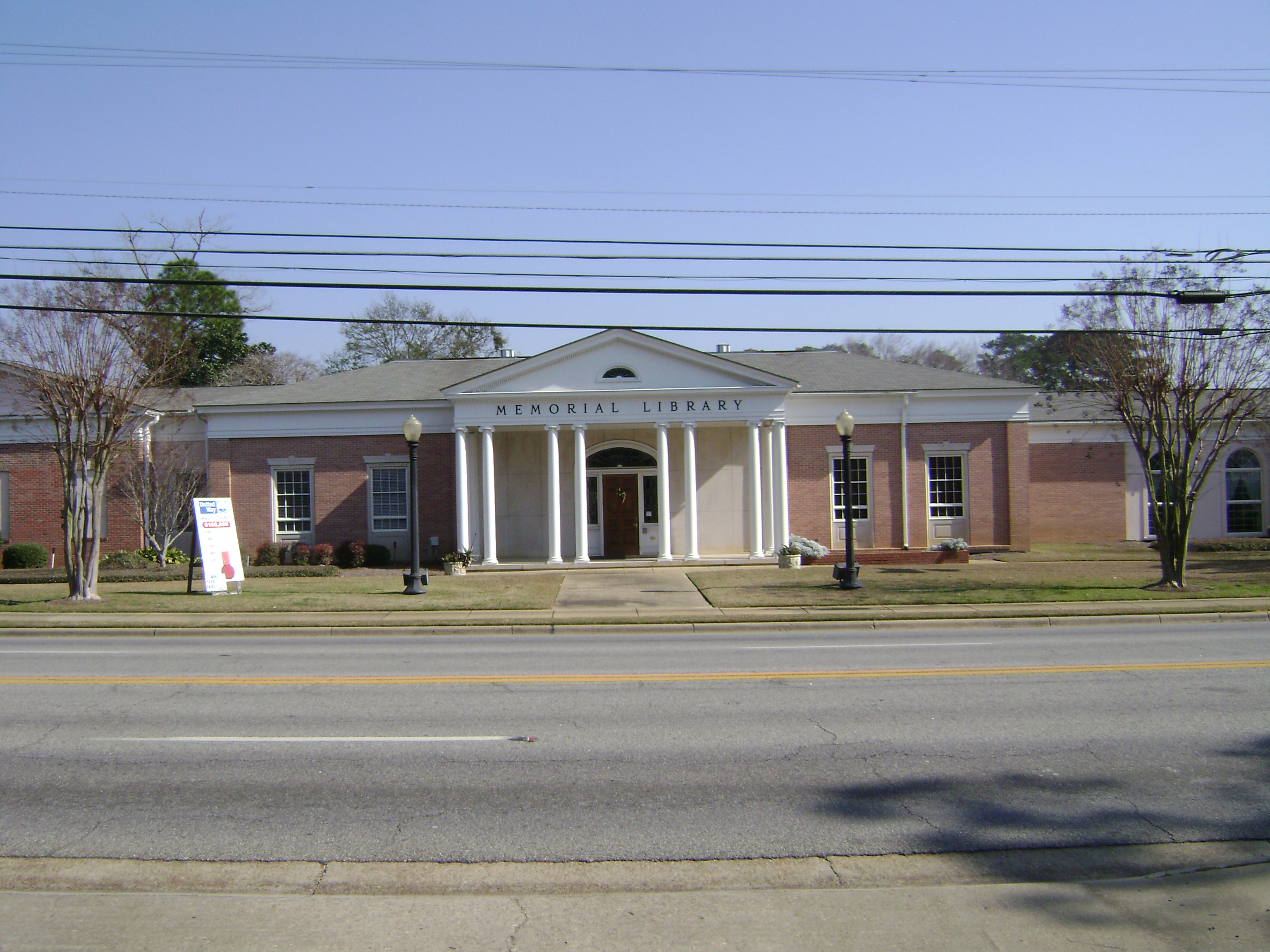 Roddenbery Memorial Library (West face), Cairo, Grady County, Georgia